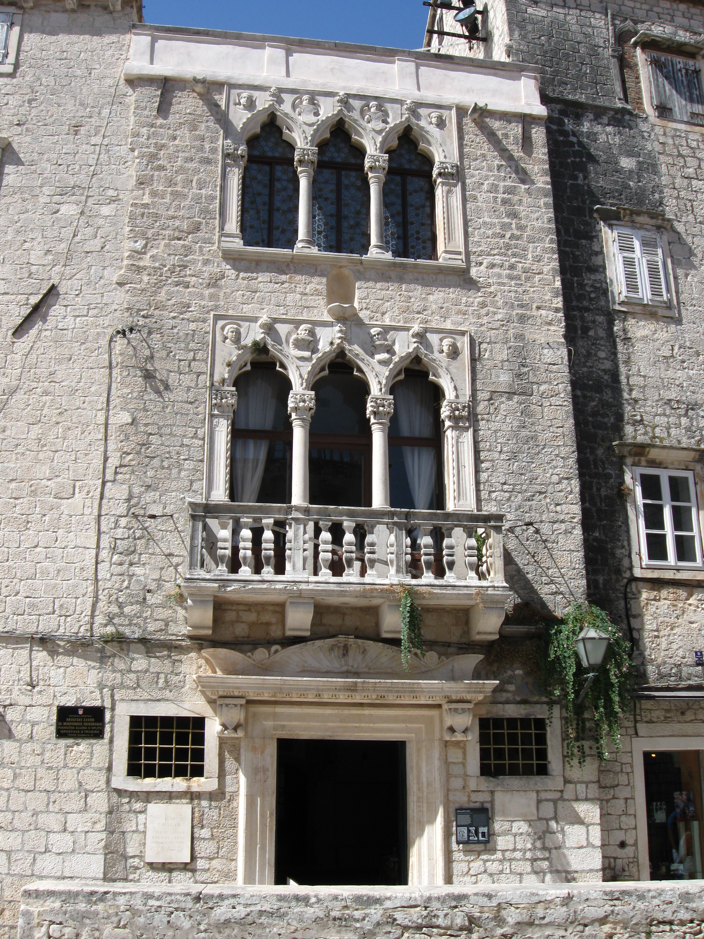 Cipiko Palace in Trogir, Croatia.